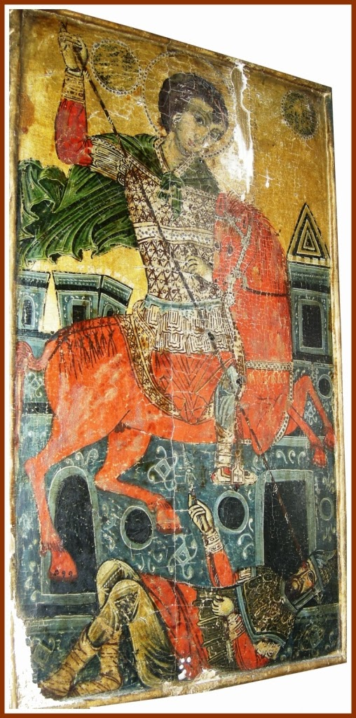 Sain Demetrius Icon in Avgi (Breshteni).